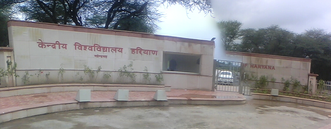 photo